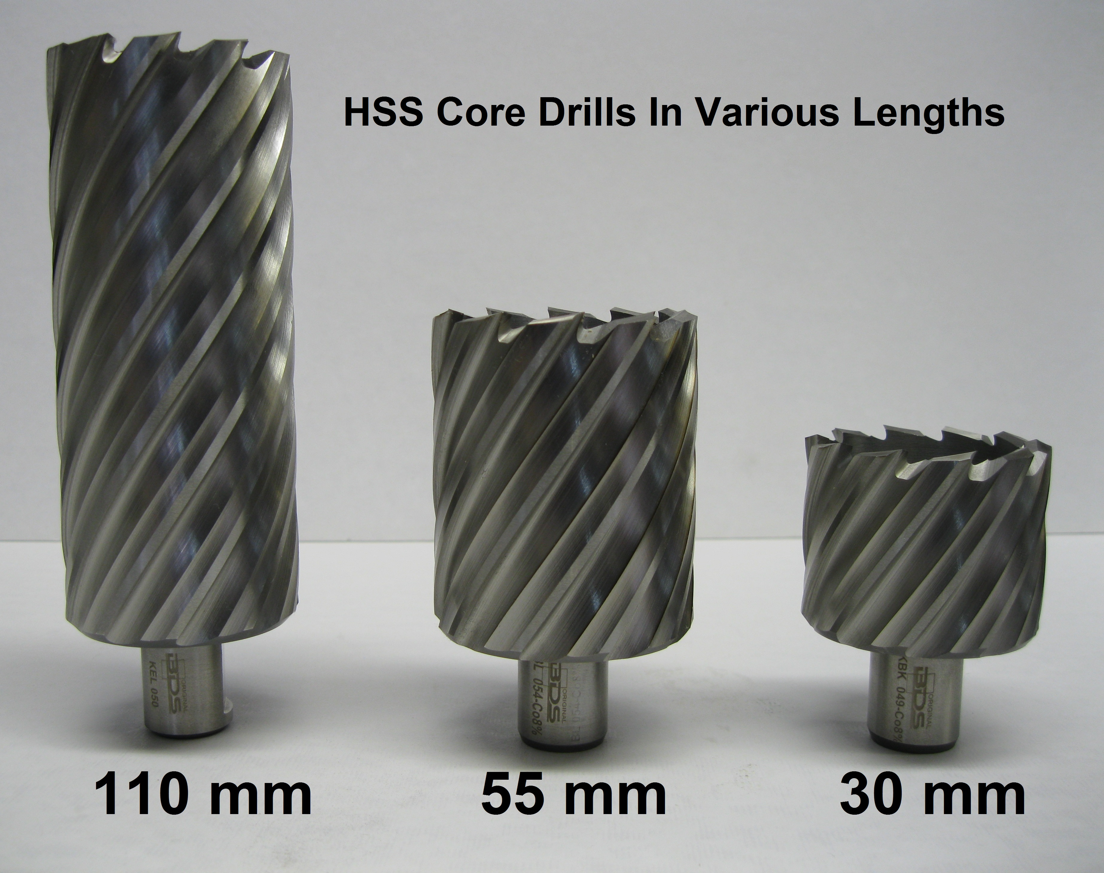 HSS Core drills in variuos cutting length